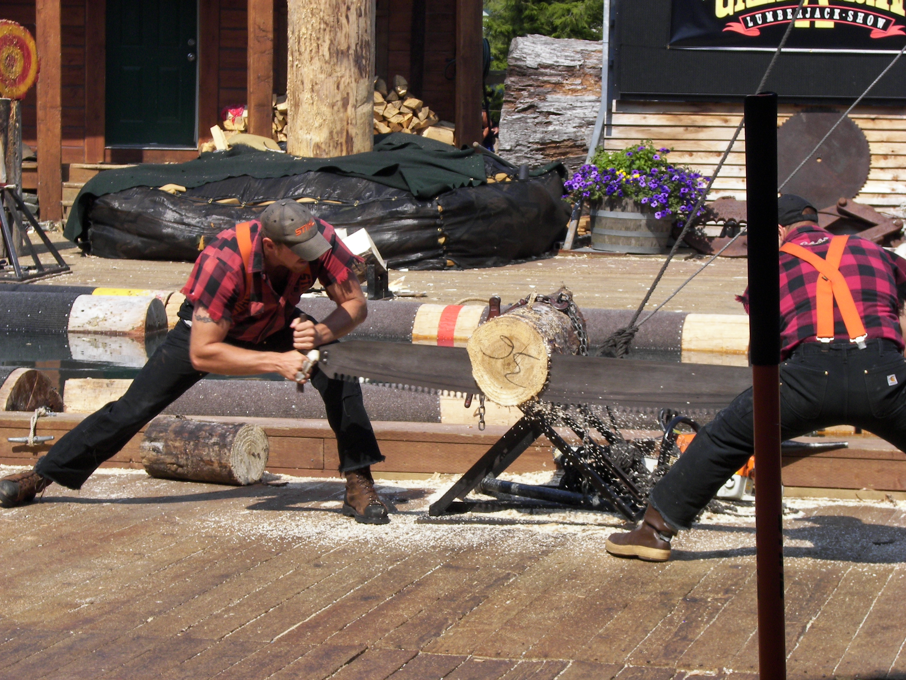 Matt Bolton and Andy Colle in the crosscut saw event at the Great Alaskan Lumberjack Show in Ketchikan, Alaska.